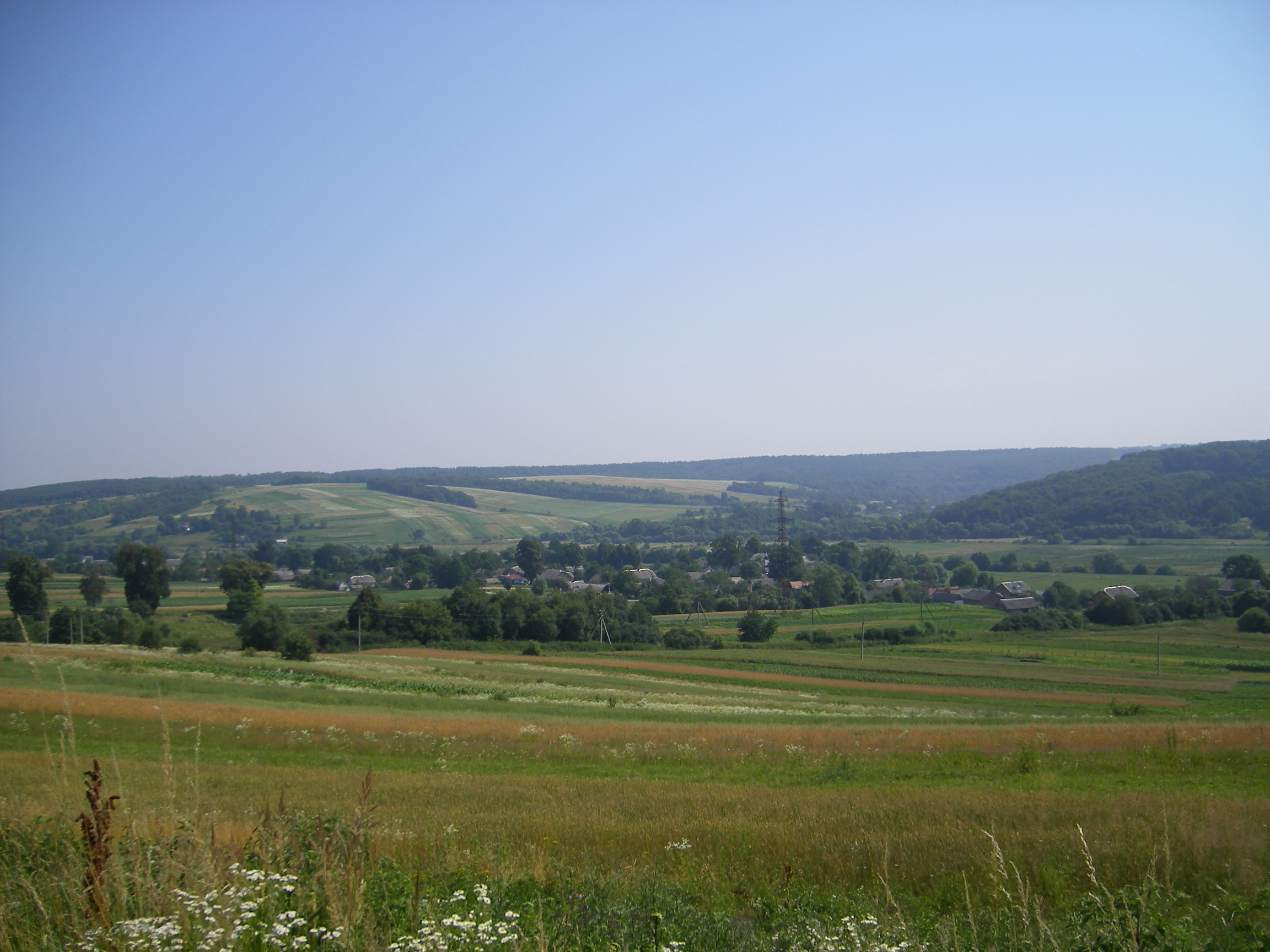 Opillia. Landscape near Krasiv, Mykolaiv Raion, Lviv Oblast, Ukraine